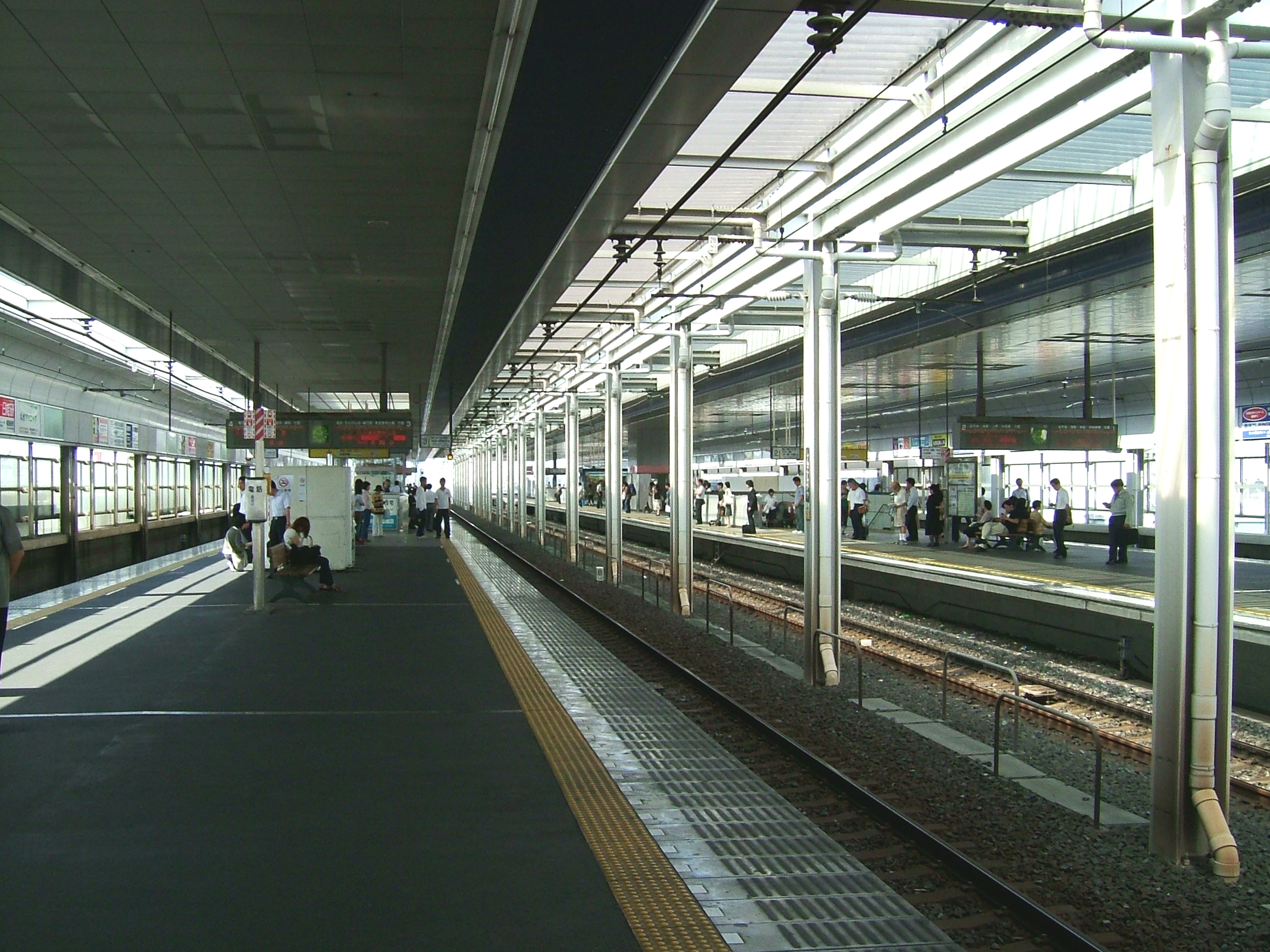 Shin-Koshigaya Station platform (Tobu Isesaki Line)